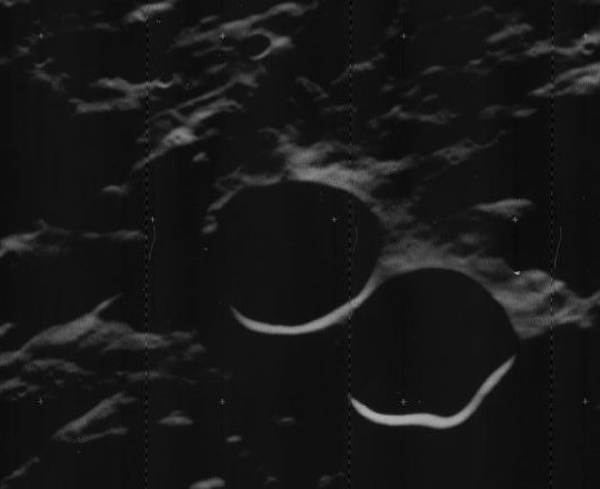 Oblique view of Lents (center) and Lents C crater (below right), on the far side of the moon, facing west.